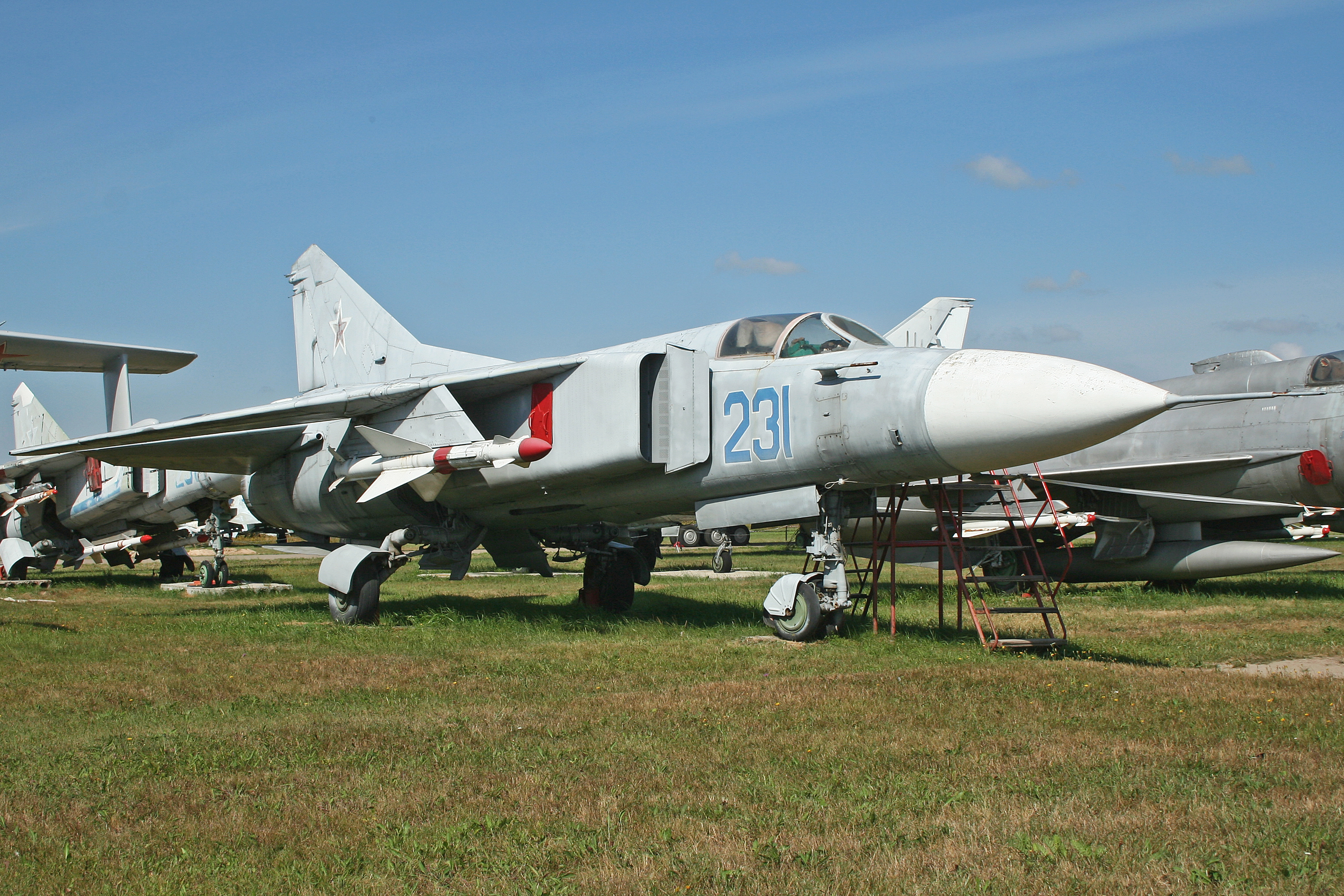 Great confusion has resulted from this MiG-23 being repainted as '231 blue' to match the other MiG-23 at Monino. This is, in fact, the third prototype originally coded '233 blue' and with the c/n 23-11/1. There are several differences between this and the real '231' and I suspect that this aircraft was modified at some point into a standard that is more similar to the service aircraft. Its c/n is often reported as 0393202201 and a suspect that this was applied when the modifications were carried out. I'm just guessing though! It is on display at the Russian Air Force Museum. Monino, Russia. 13-8-2012